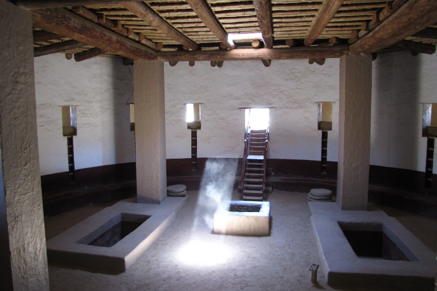 Inside the Great Kiva at Aztec Ruins National Monument